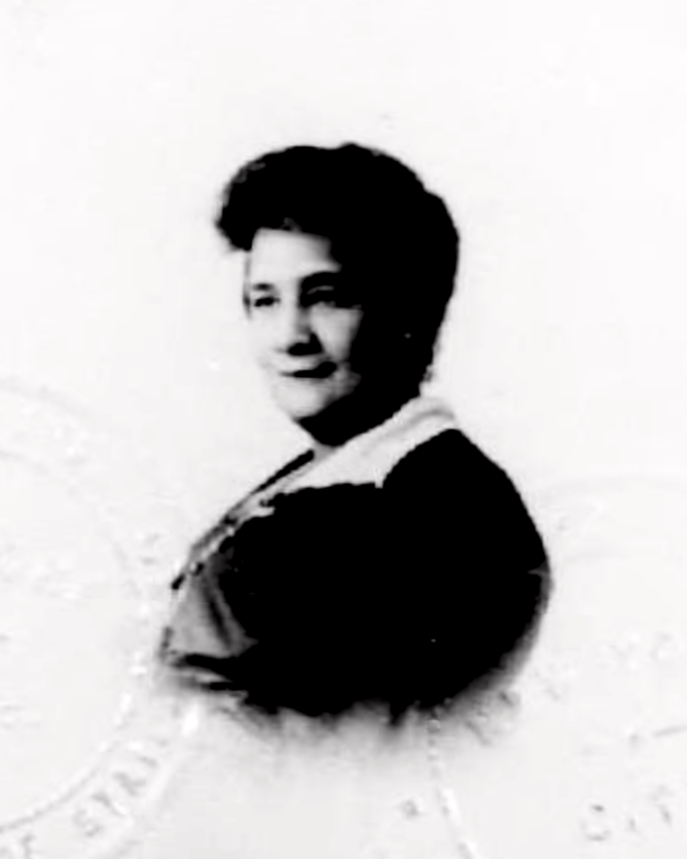 Passport photo of Susan Elizabeth Frazier. Miss Frazier was the first African American allowed to teach in New York City public schools.